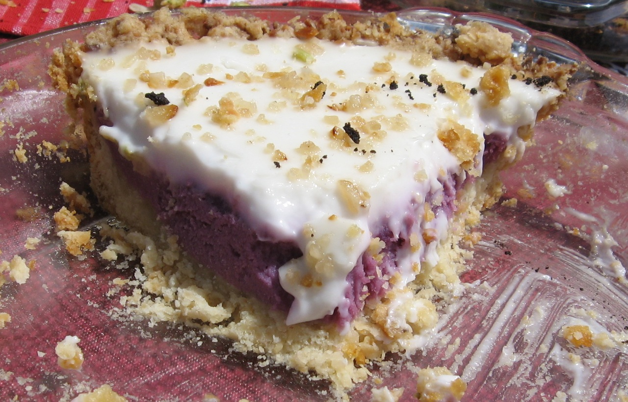 Ube Haupia Pie with Macadamia Shortbread Crust